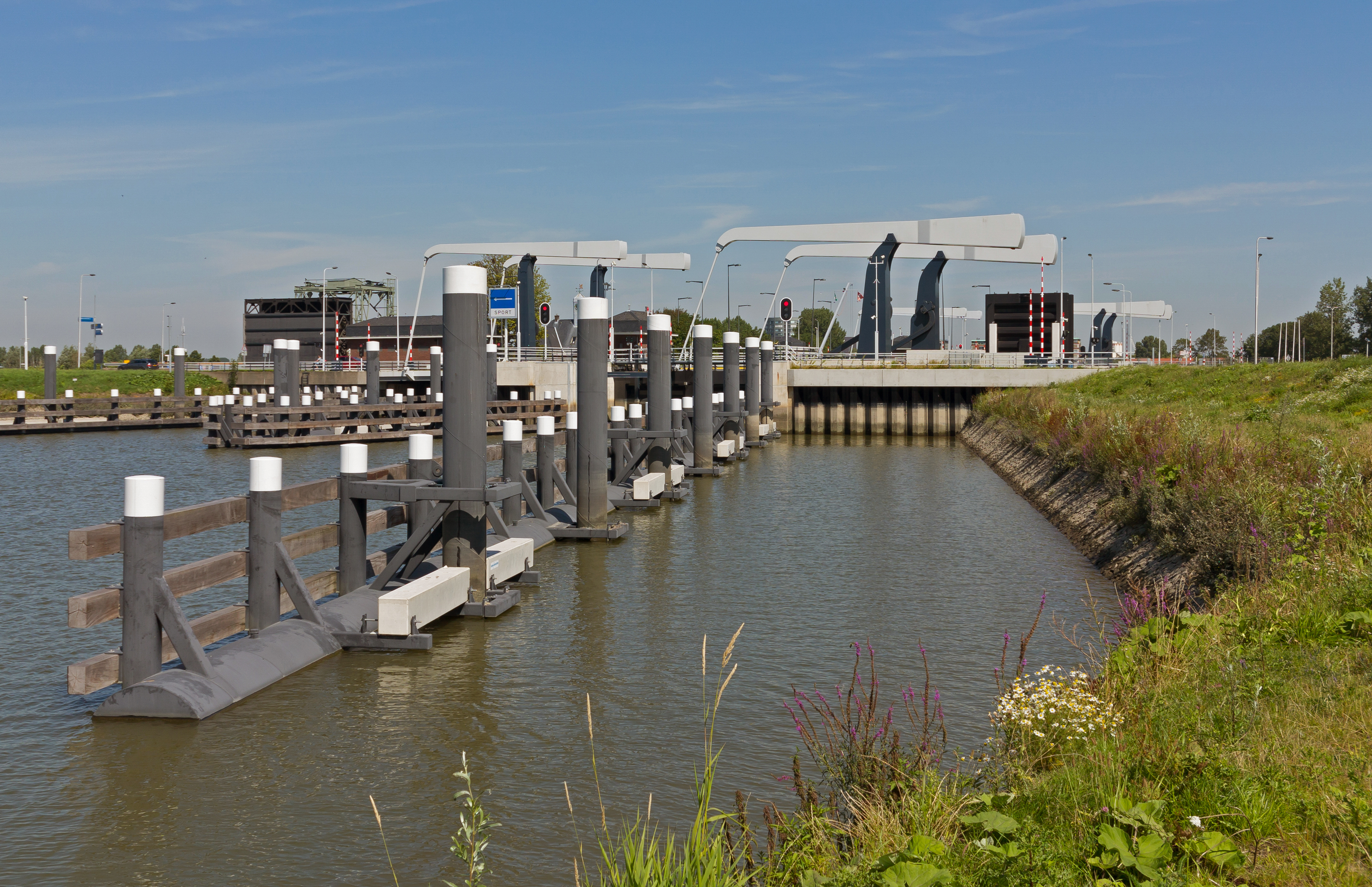 Gouda, lock: de Julianasluis